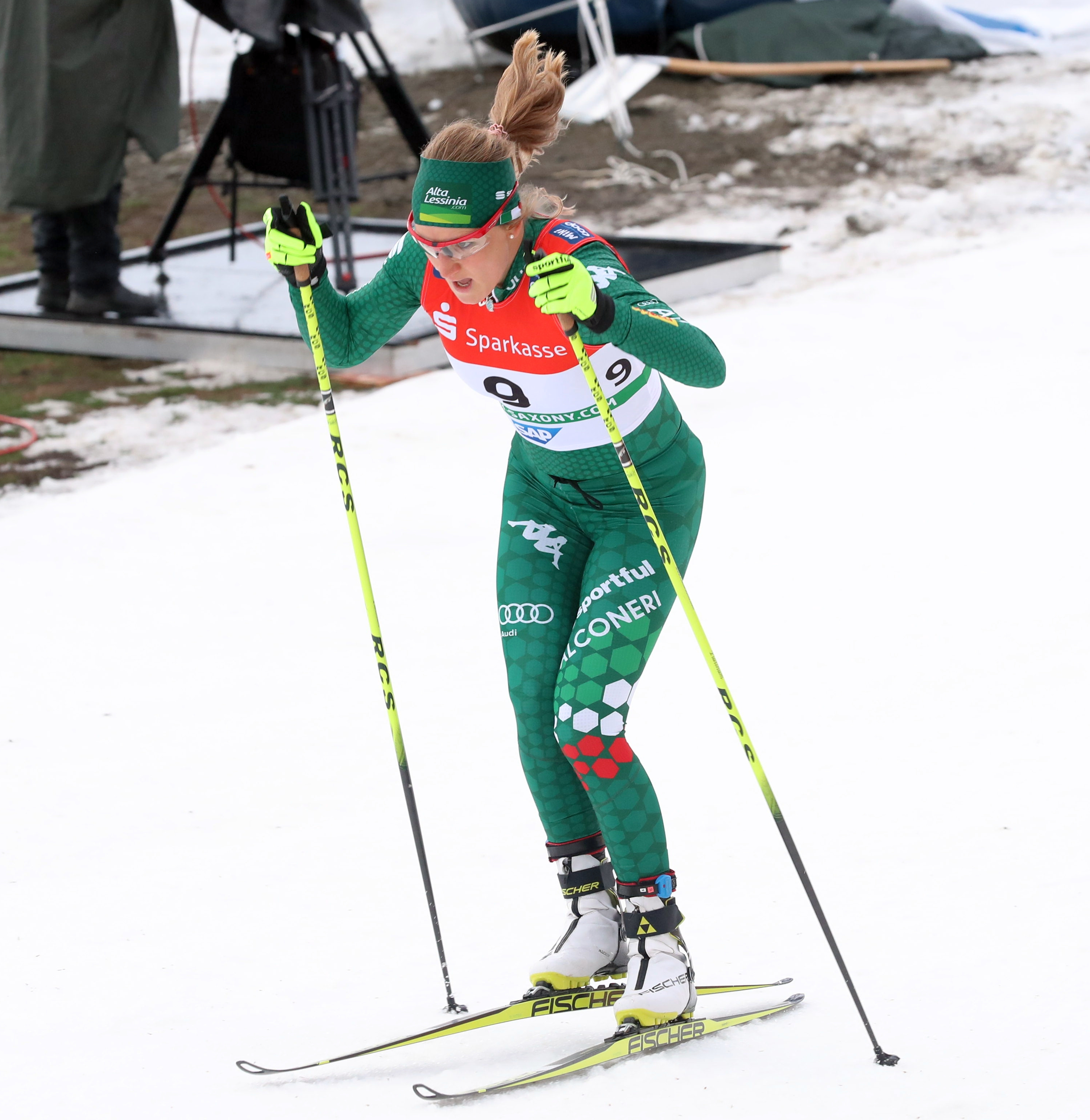 Women's Qualification at the FIS Cross-Country World Cup Dresden 2019 (1.6 km Free Sprint)